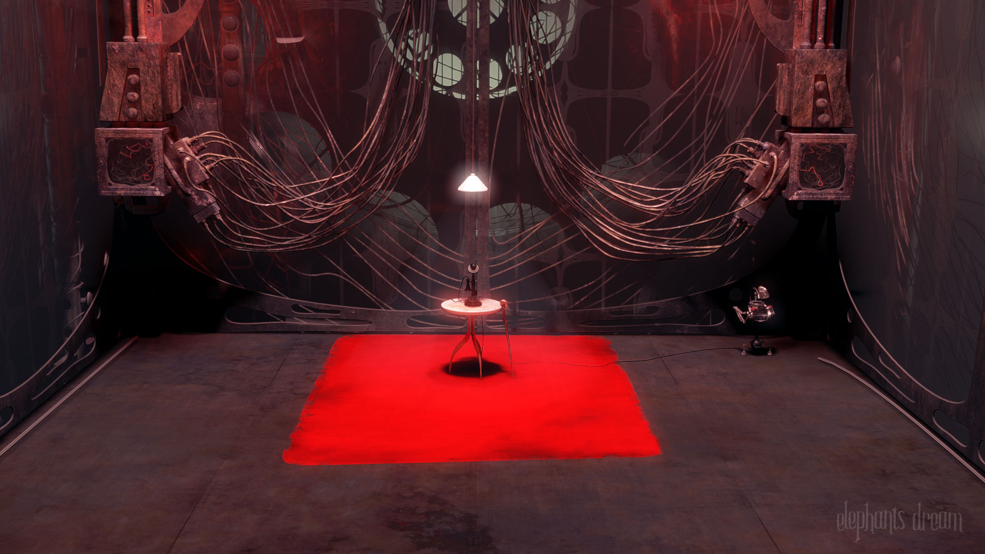 Image from the film Elephants Dream.